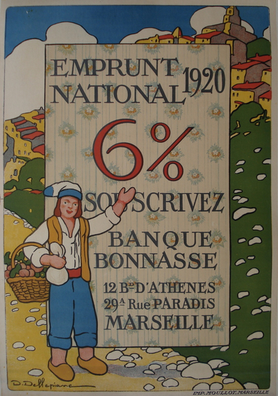 Emprunt national sur affiche ancienne de 1920